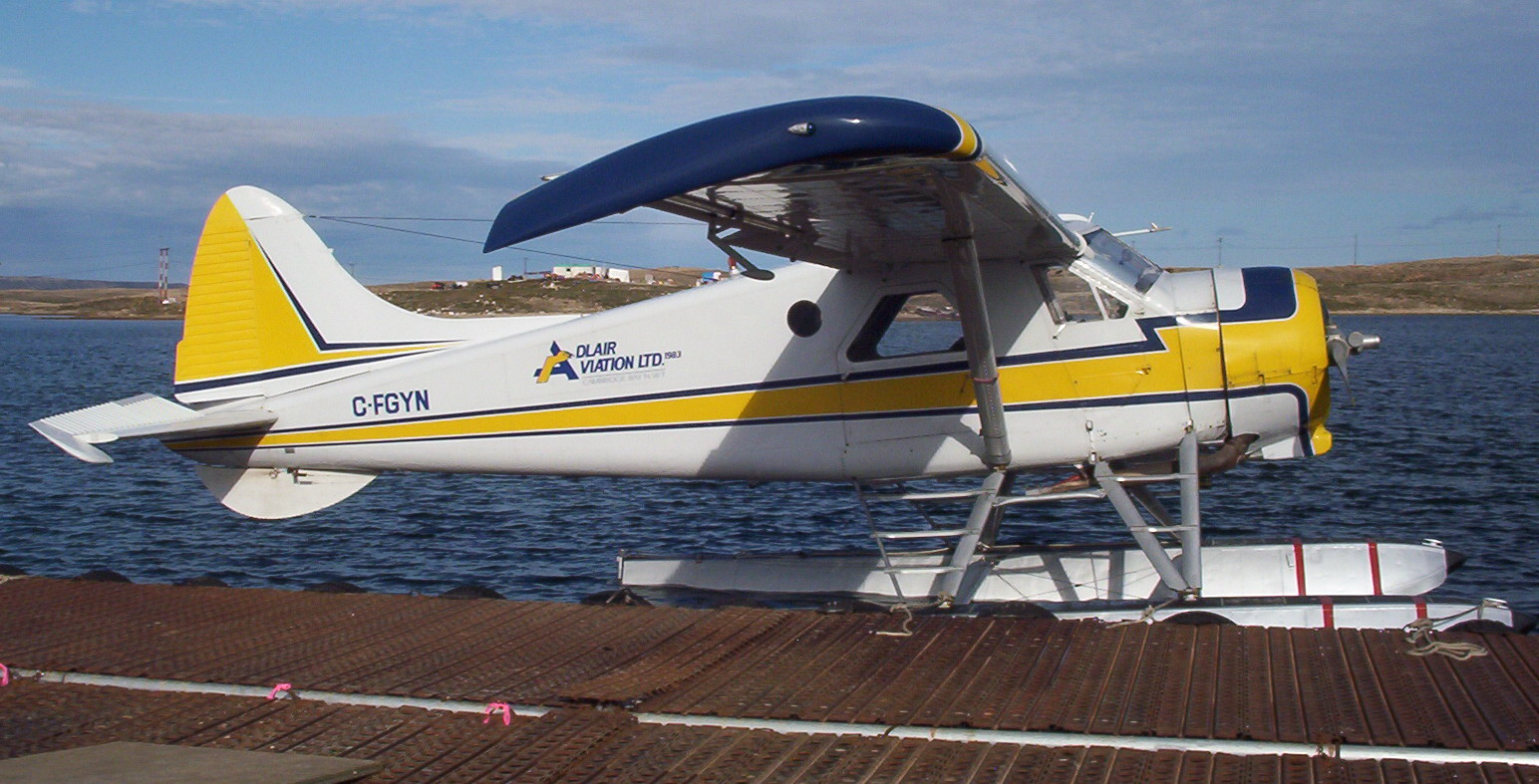 C-FGYN Adlair Aviation Ltd. de Havilland Beaver (DHC2) Mk.I at the Adlair Float Base, Cambridge Bay, Nunavut, Canada.